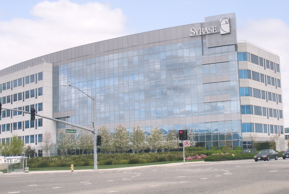 The headquarters of Sybase in Dublin. Photographed on April 22, 2006 by user Coolcaesar.